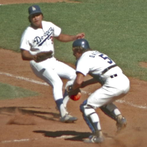 NY Mets' Lee Mazzilli is about to be out trying to steal home base. LA Dodgers' catcher Johnny Oates and pitcher Lance Rautzhan are protecting home while the Mets' Steve Henderson is at bat. The Mets won 8 to 5 at Dodger Stadium.. (Scanned from 35mm Kodachrome 64 slide)